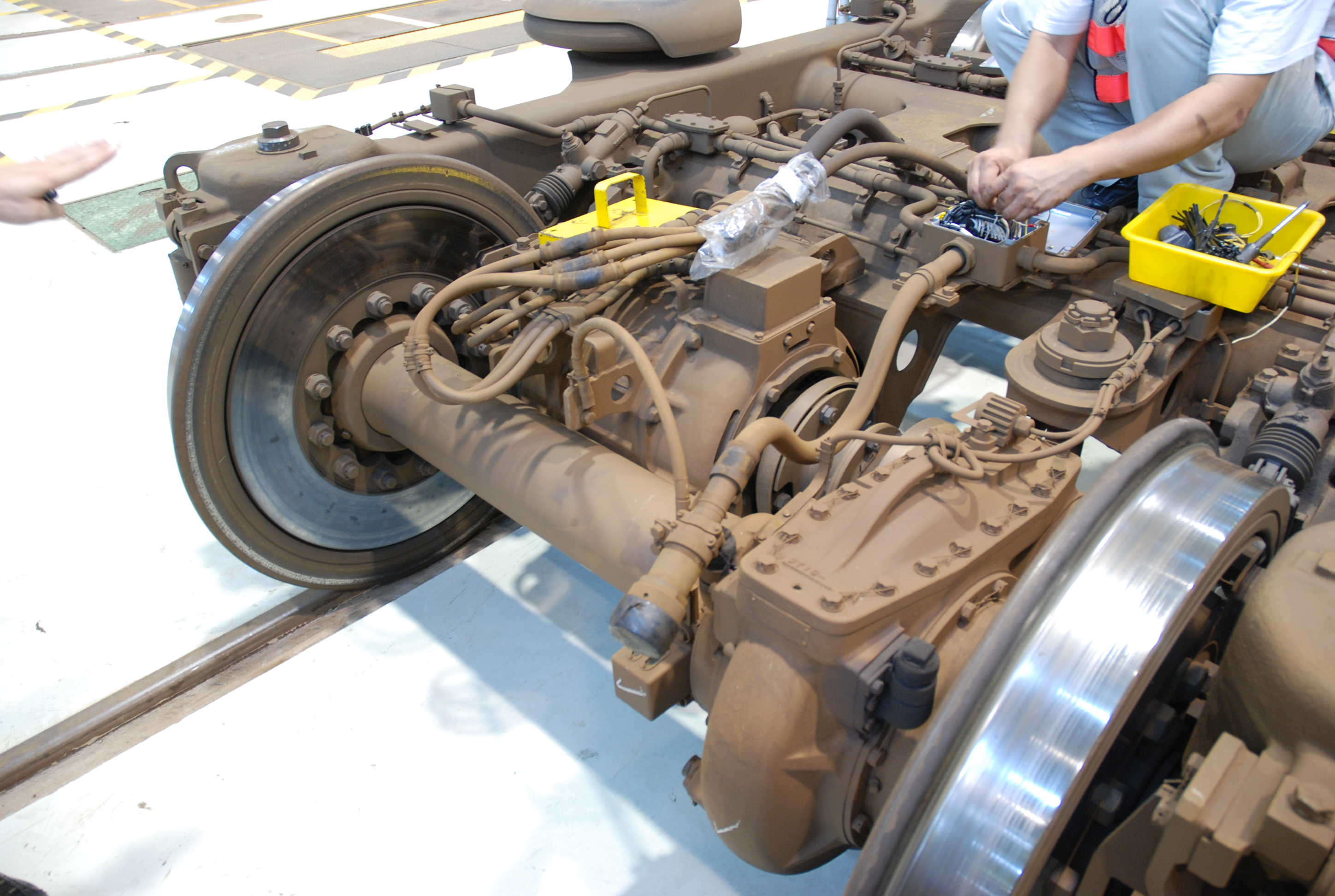 Taiwan High Speed Rail 700T truck inside